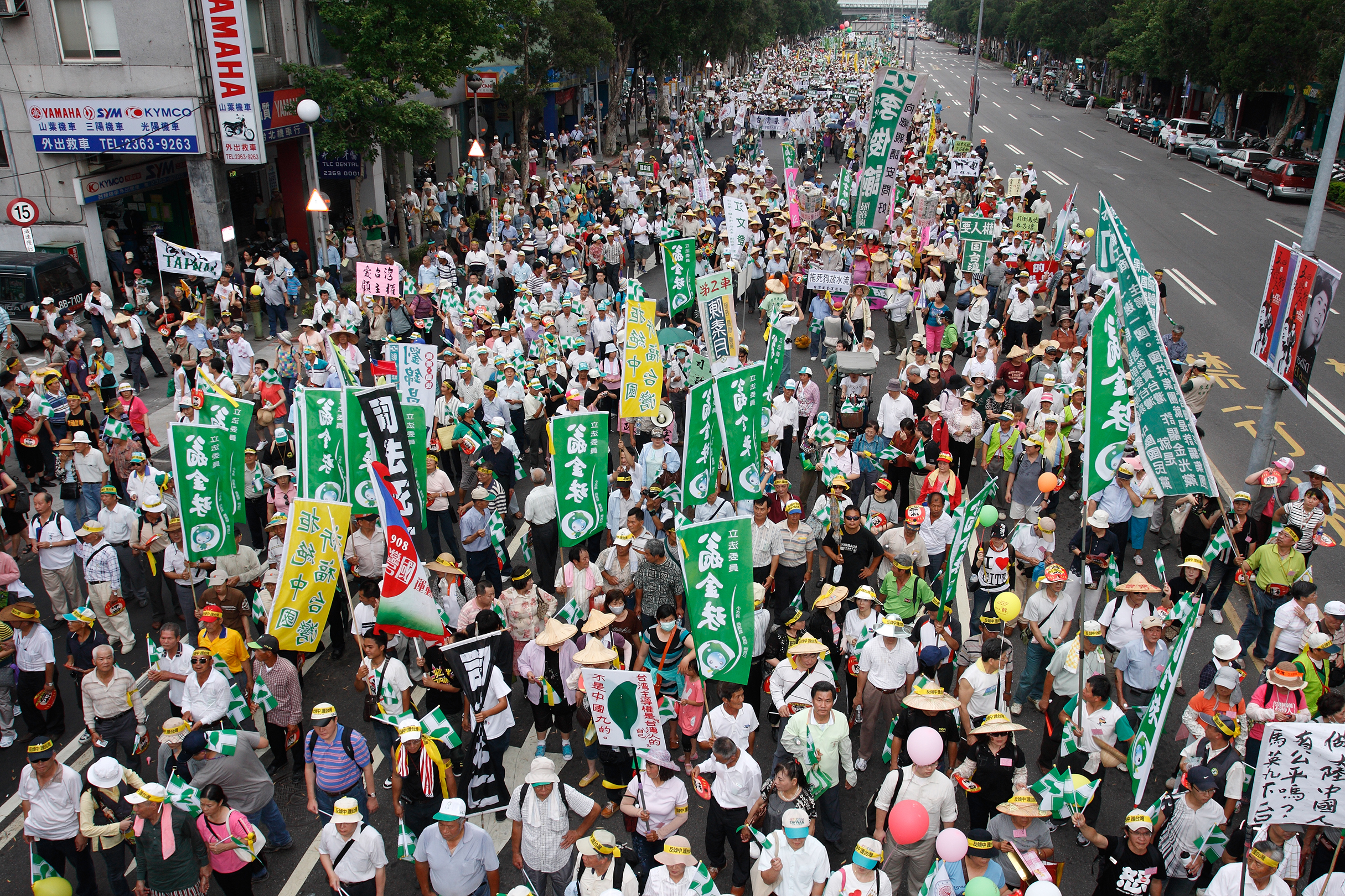 Taiwan protest May 17, 2009